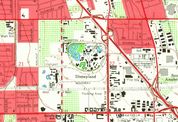 Our #TBT celebrates the opening of Disneyland on this day in 1955. We've provided a portion of the 1965 Anaheim, CA topographic map showing the original footprint of the park still surrounded by orange groves. Notice the Matterhorn ride is shown and labeled on the map because it was noted as a significant man-made structure. Walt Disney's magical kingdom, built on 160 acres of orange groves and walnut trees with a $17 million investment in the town of Anaheim, was just 30 minutes south of Los Angeles. On this day the press and invited guests entered the park to find an ornate castle, a rustic frontier fort and tropical jungles. Even though the day did not go smoothly with some parts of the park unfinished it has proven to be one of the most popular attractions in the world hosting 14 million visitors a year. You can view earlier maps of the area online using the Map Locator and Downloader on the USGS Store at to view the area when it was populated with just a handful of houses and miles of orchards covered the landscape. Our newest Anaheim, CA US Topo map, which includes aerial imagery, shows the addition of California Adventure Park.